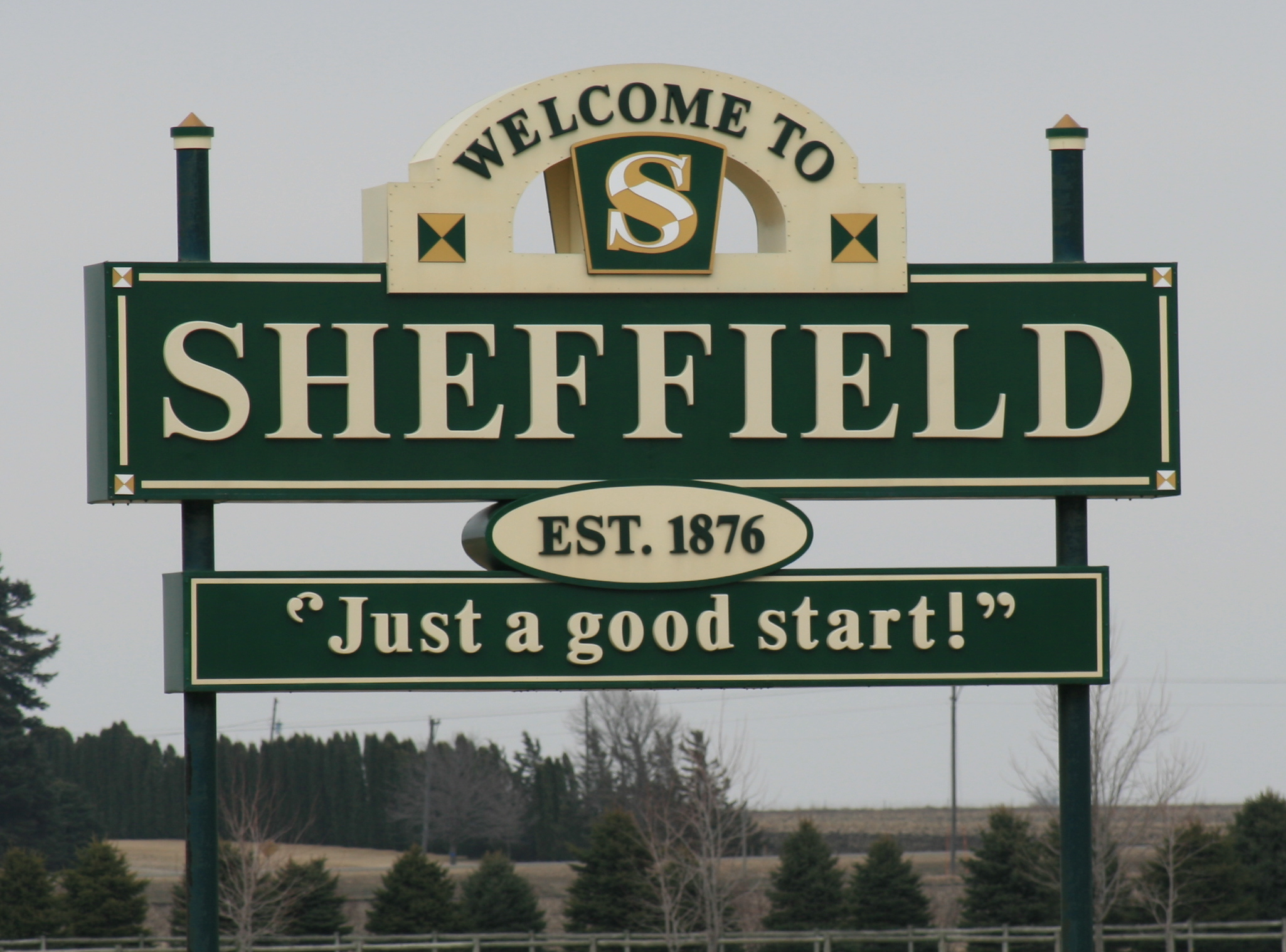 Welcome sign for Sheffield, Iowa